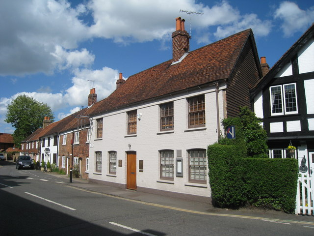 The Fat Duck, High Street, Bray. One of the most famous restaurants in the country, ran by tv chef Heston Blumenthal, this Michelin 3 star restaurant is known for its experimental menu. This is one of only three Michelin 3 star restaurants in the UK, another of which is also in Bray just down the road. 1271187 Formerly a public house. Grade II listed